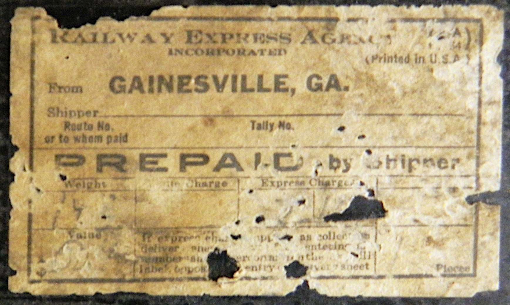 Early 1900's Steamer Trunk Railway Express Agency Shipping Sticker